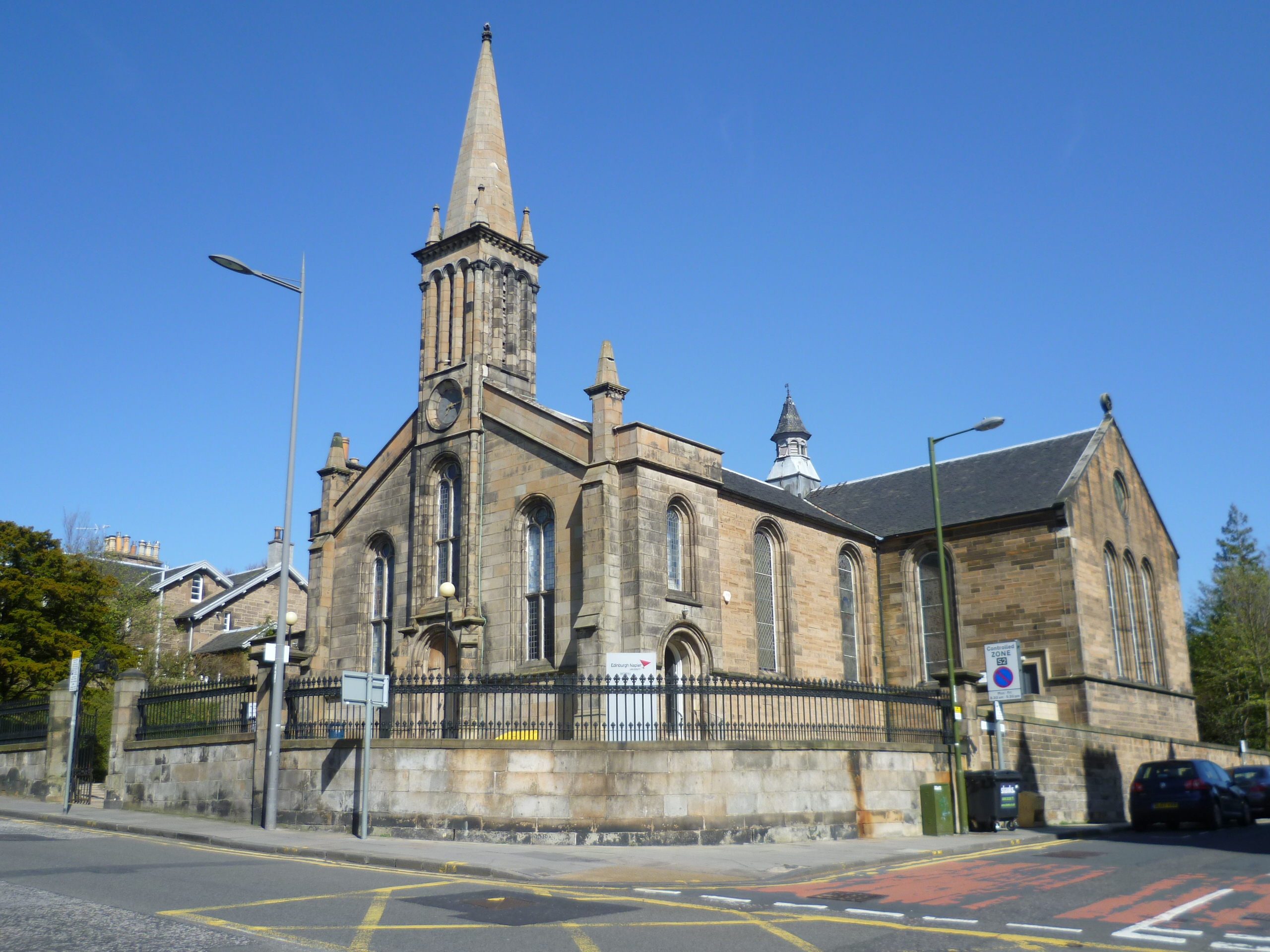 The first church to be built in the village of Morningside opened in 1838 and closed in 1990 after amalgamating with the Braid Church. The land on which it was built was gifted by Sir John Stuart Forbes of nearby Greenhill House. Subscribers to the building fund included Alexander Falconar of Falcon Hall, Sir George Warrender of Bruntsfield House and 'the young gentlemen of Merchiston Academy'. It now belongs to Napier University whose Merchiston campus is close by.